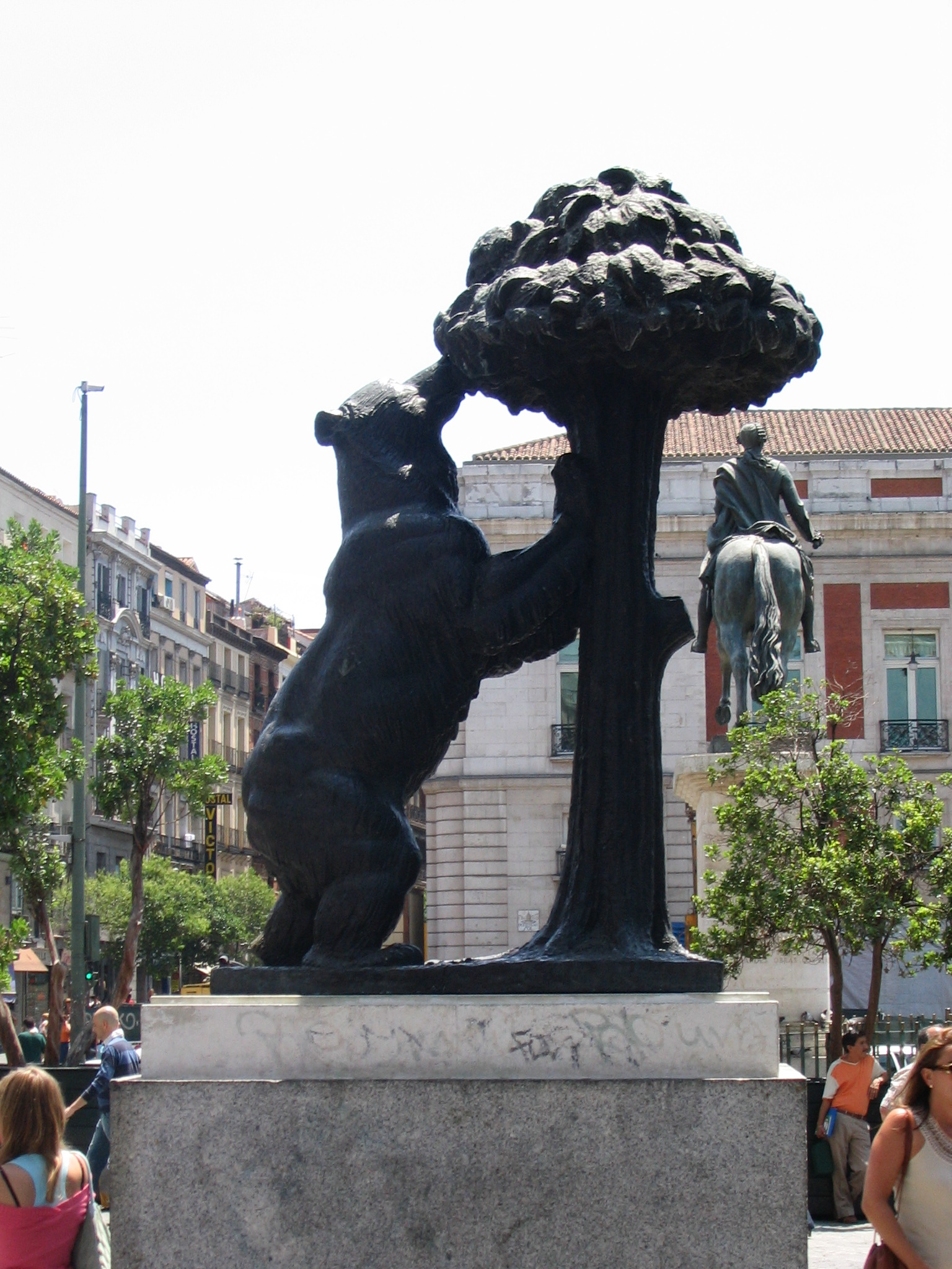 El Oso y el Madroño ("The Bear and the Strawberry Tree") at the Puerta del Sol (square) in Madrid (Spain). Heraldic symbol of the city, made of bronze by sculptor Antonio Navarro Santafé in 1966 and inaugurated on January 10, 1967.